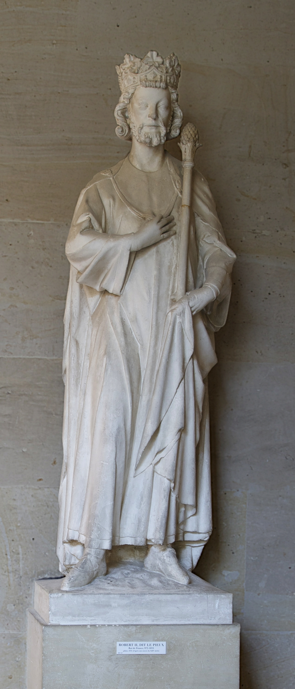 Statue of king Robert II of France, "The Pious" (972-1031), 1835. Plaster. From an original statue of the 13th century. Galerie de Pierre, aile nord, Château de Versailles